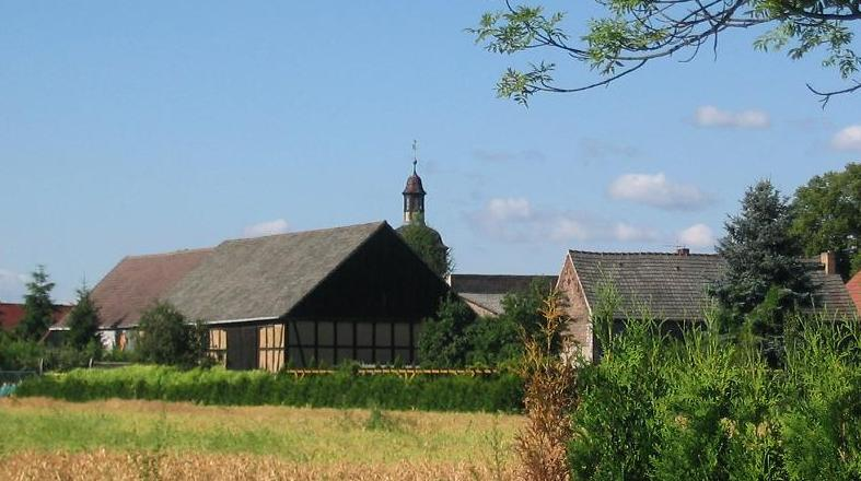 Neschholz. The village Neschholz is an incorporated part of the town Belzig in the district Potsdam Mittelmark, state Brandenburg, Germany. Belzig appertains to the natural preserve Naturpark Hoher Fläming.